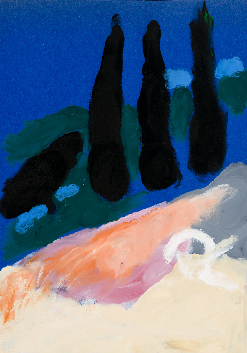 Tuscan diary II, acryl, coloured paper, 29,8 x 21, 4 cm (1986-87)